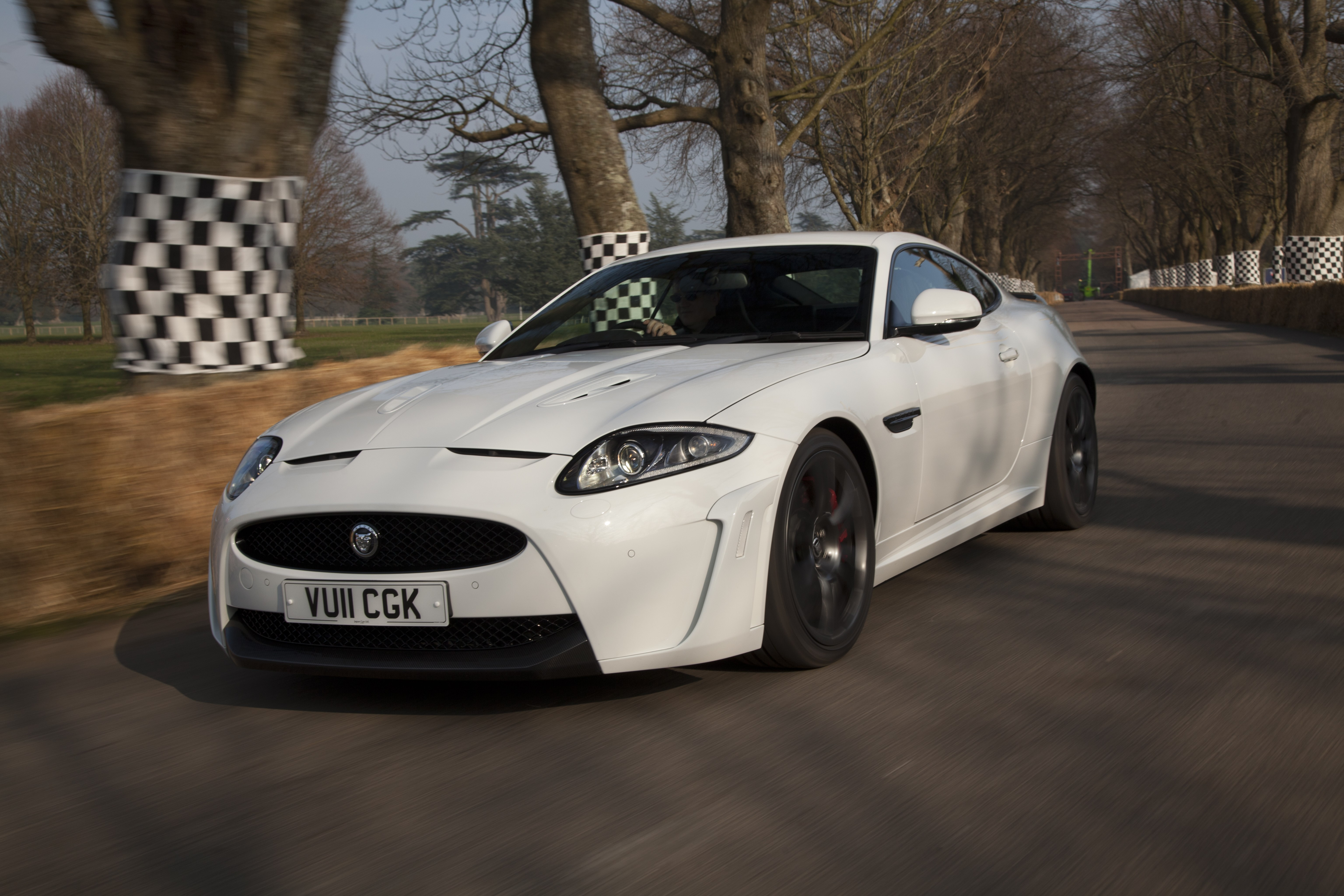 Jaguar XKR-S - Goodwood Festival of Speed